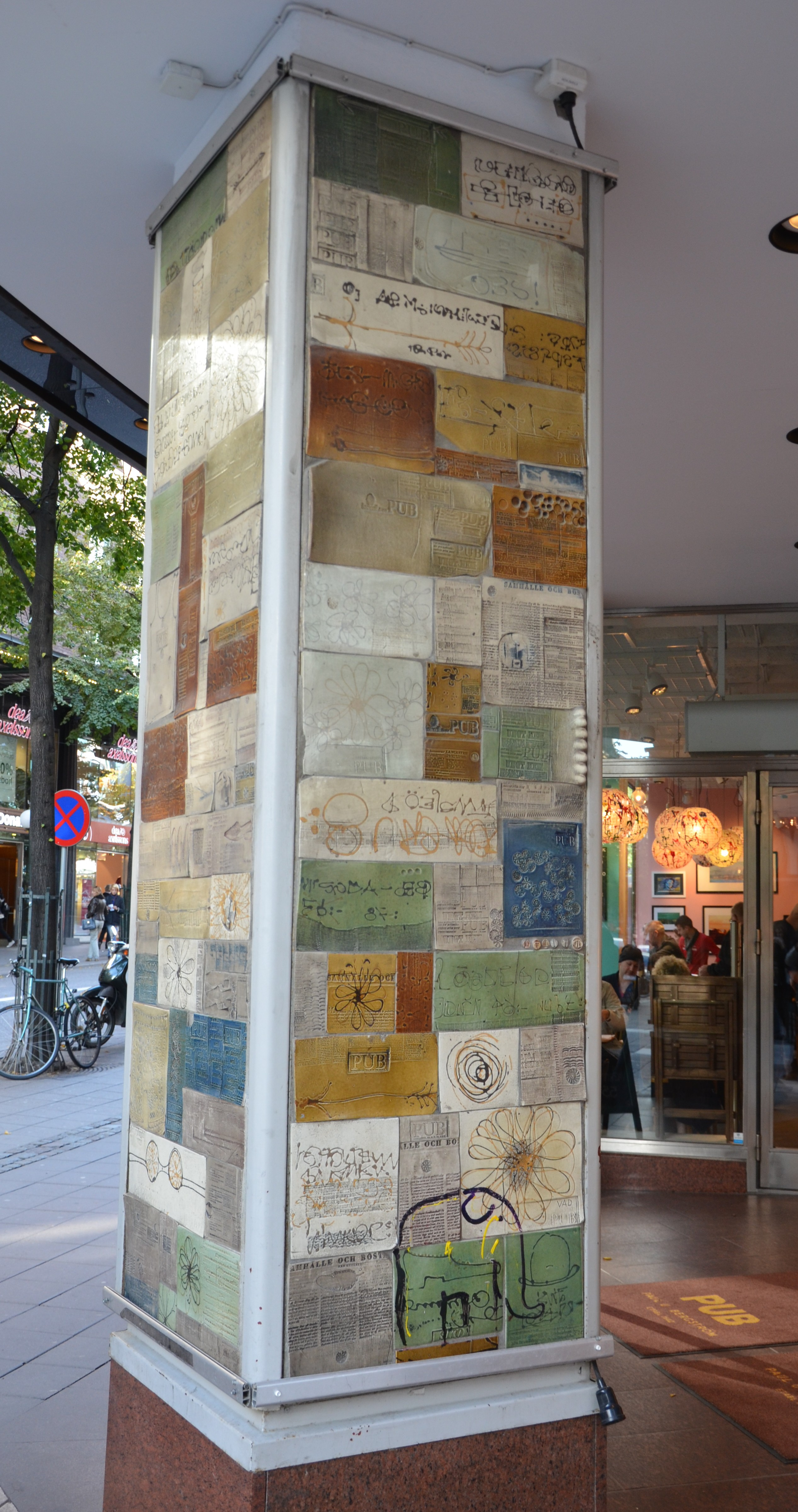 Chereamic tiles on a pillar at PUB department store, Stockholm, by Bengt Berglund